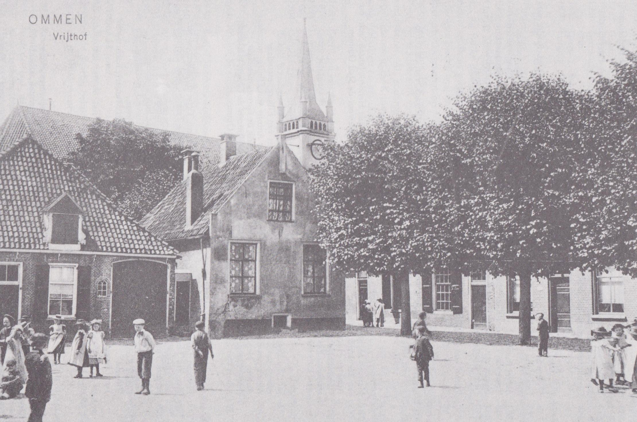 Vrijthof square with former town hall Ommen